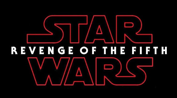 alternative Star Wars Day title